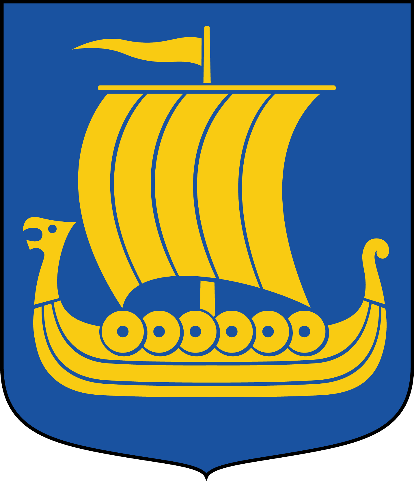 Coat of arms of the municipality of Lidingö, Sweden. Painted by Vladimir A. Sagerlund when he was the heraldic artist at the National Archives of Sweden (Riksarkivet). This representation of a coat of arms is potentially different from the one used by the armiger (municipality or organisation) in question. = ⇑“Sable, a lionrampant or” This coat of arms was drawn based on its blazon which – being a written description – is free from copyright. Any illustration conforming with the blazon of the arms is considered to be heraldically correct. Thus several different artistic interpretations of the same coat of arms can exist. The design officially used by the armiger is likely protected by copyright, in which case it cannot be used here.Individual representations of a coat of arms, drawn from a blazon, may have a copyright belonging to the artist, but are not necessarily derivative works. Further information: Commons:Coats of arms and Template:Coa blazon